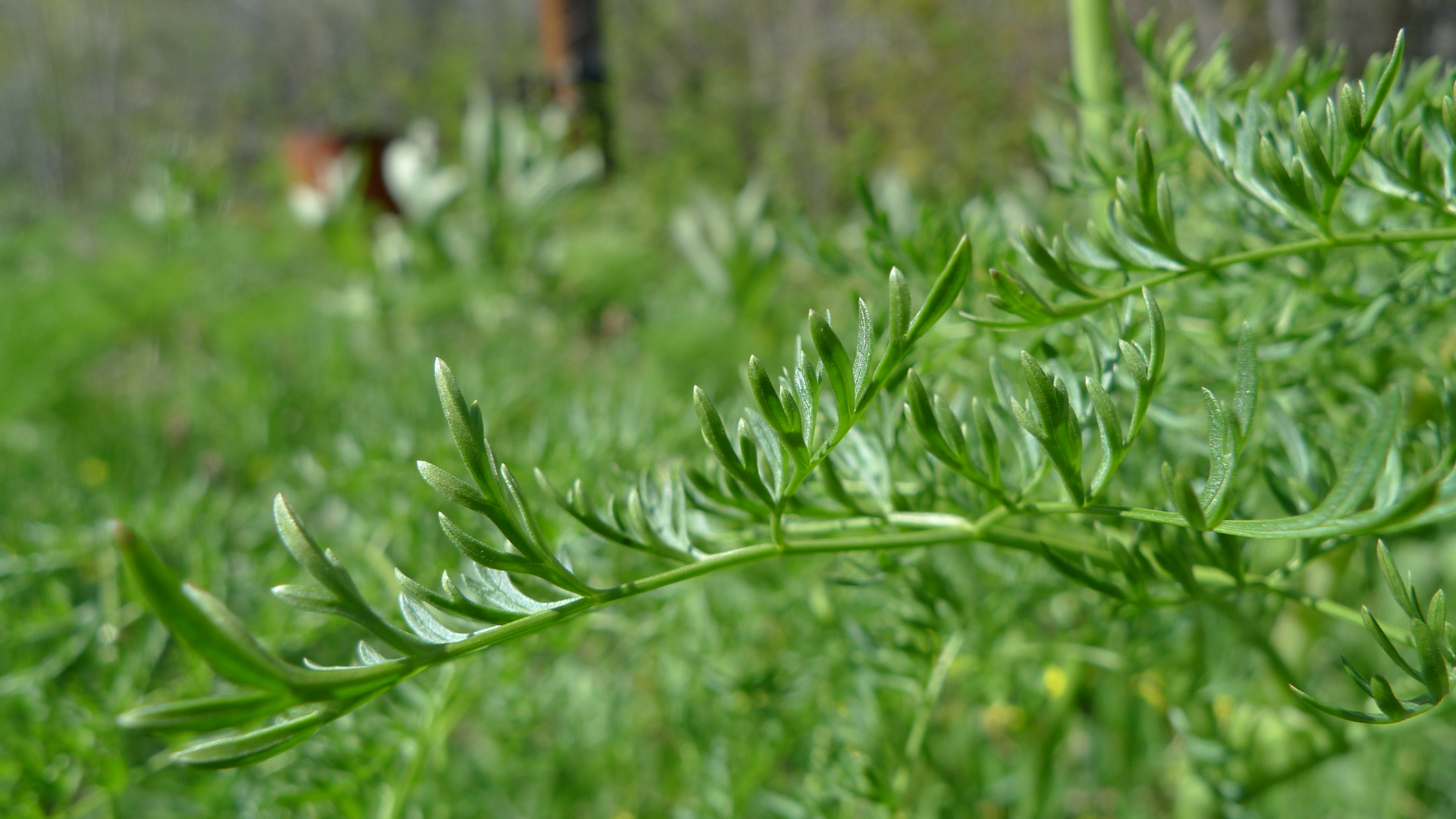 Lomatium dissectum var. dissectum leaves at Leavenworth Ski Hill, Chelan County Washington